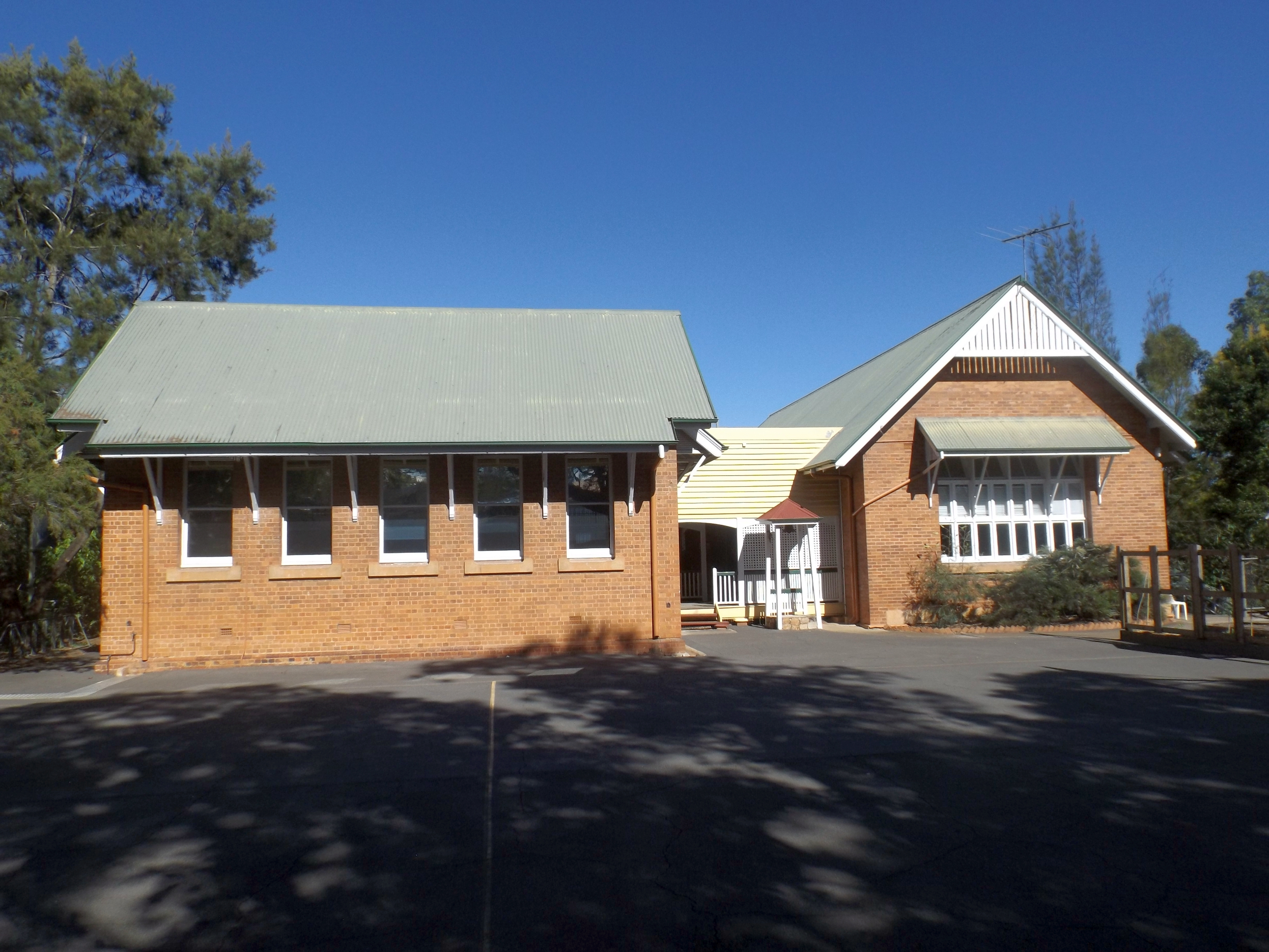 Photo of Ipswich West State School buildings at West Ipswich, City of Ipswich, Queensland, Australia.